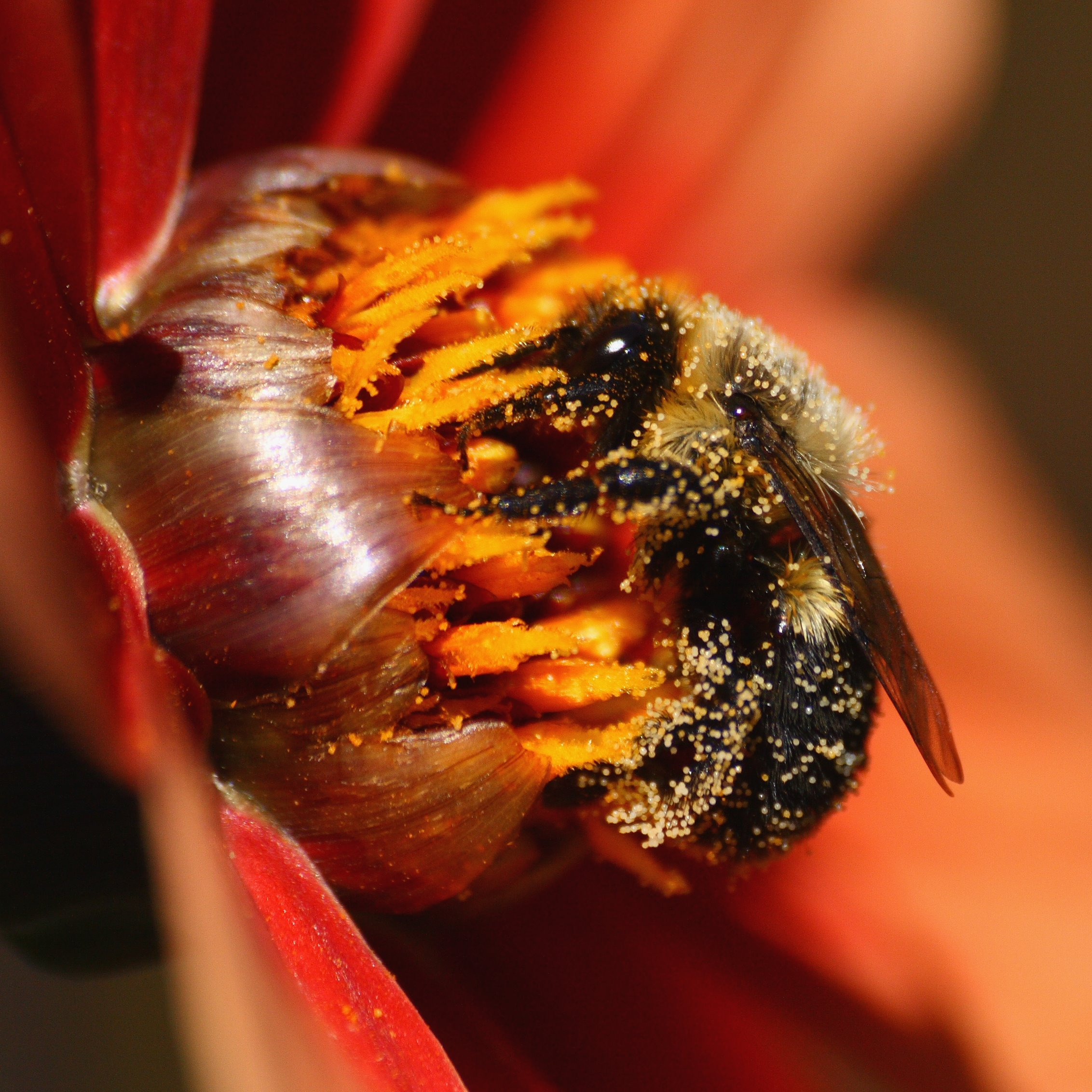 A bee covered in pollen grains on a Dahlia flower, in West Hartford, Connecticut, United States